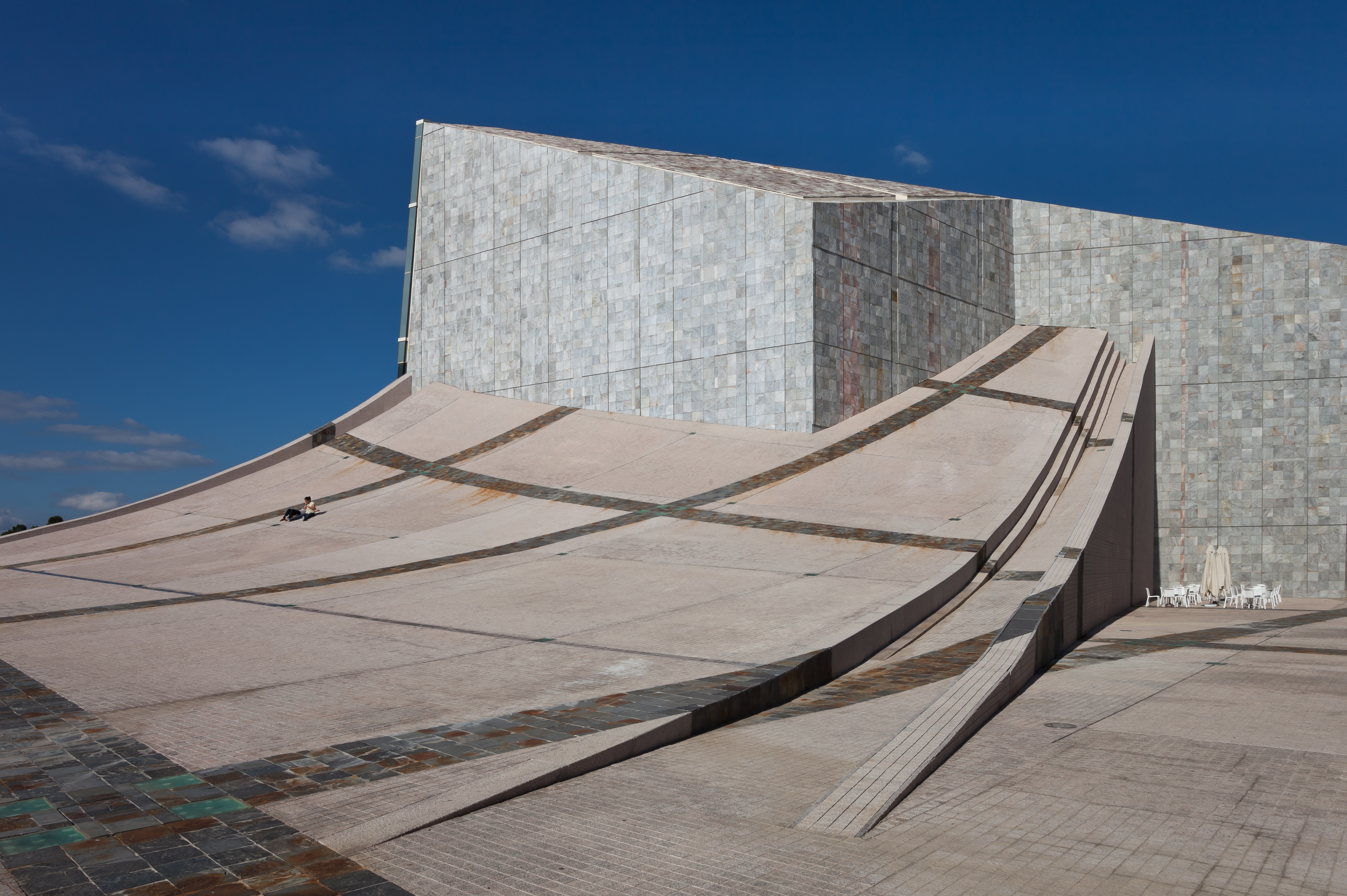 Library and Archive of Galicia. City of the Culture of Galicia. Santiago de Compostela. Peter EisenmanGalego: Biblioteca e arquivo de Galicia. Cidade da Cultura. Santiago de Compostela. Peter Eisenman